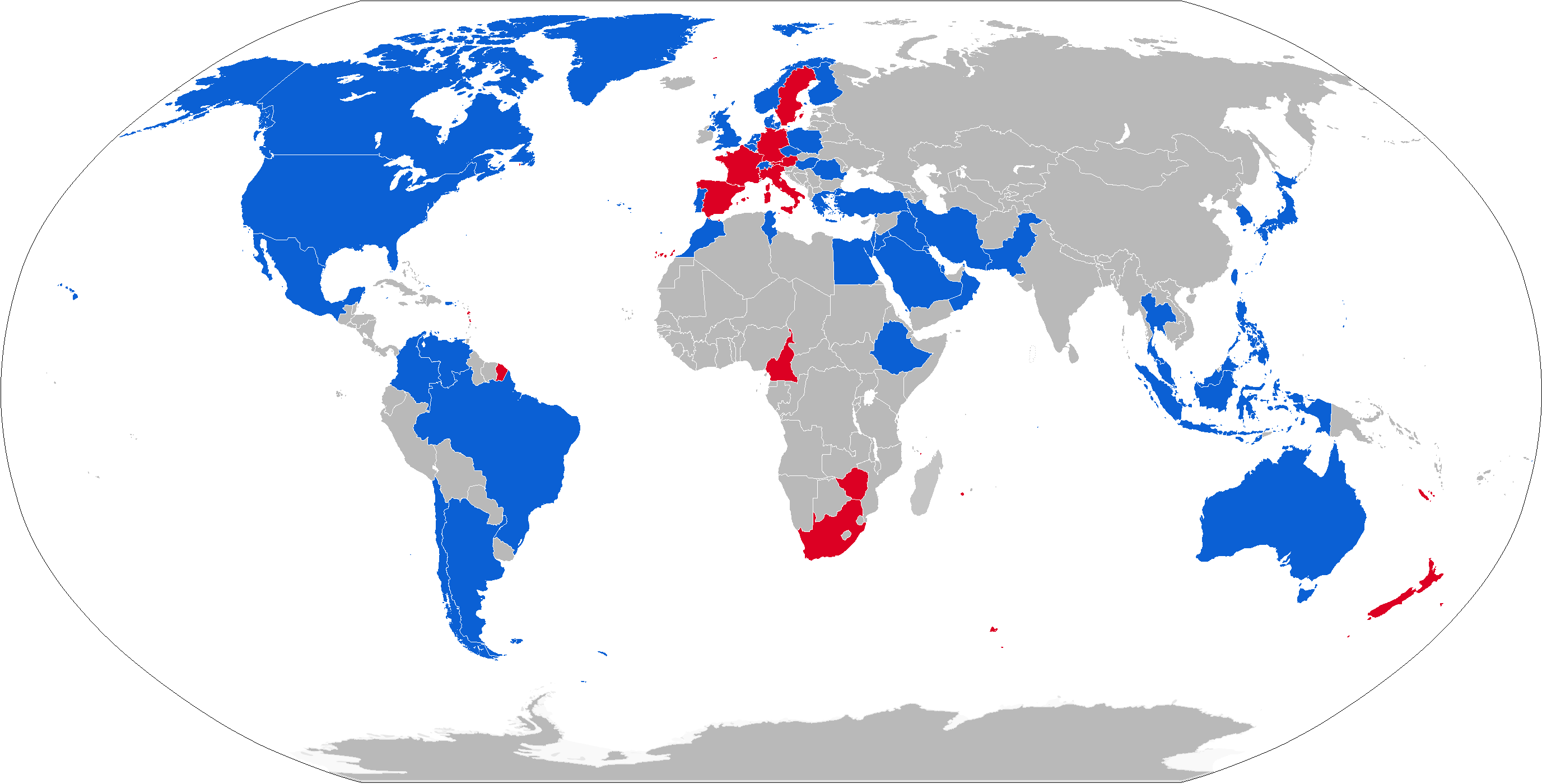 Map with AIM-9 operators